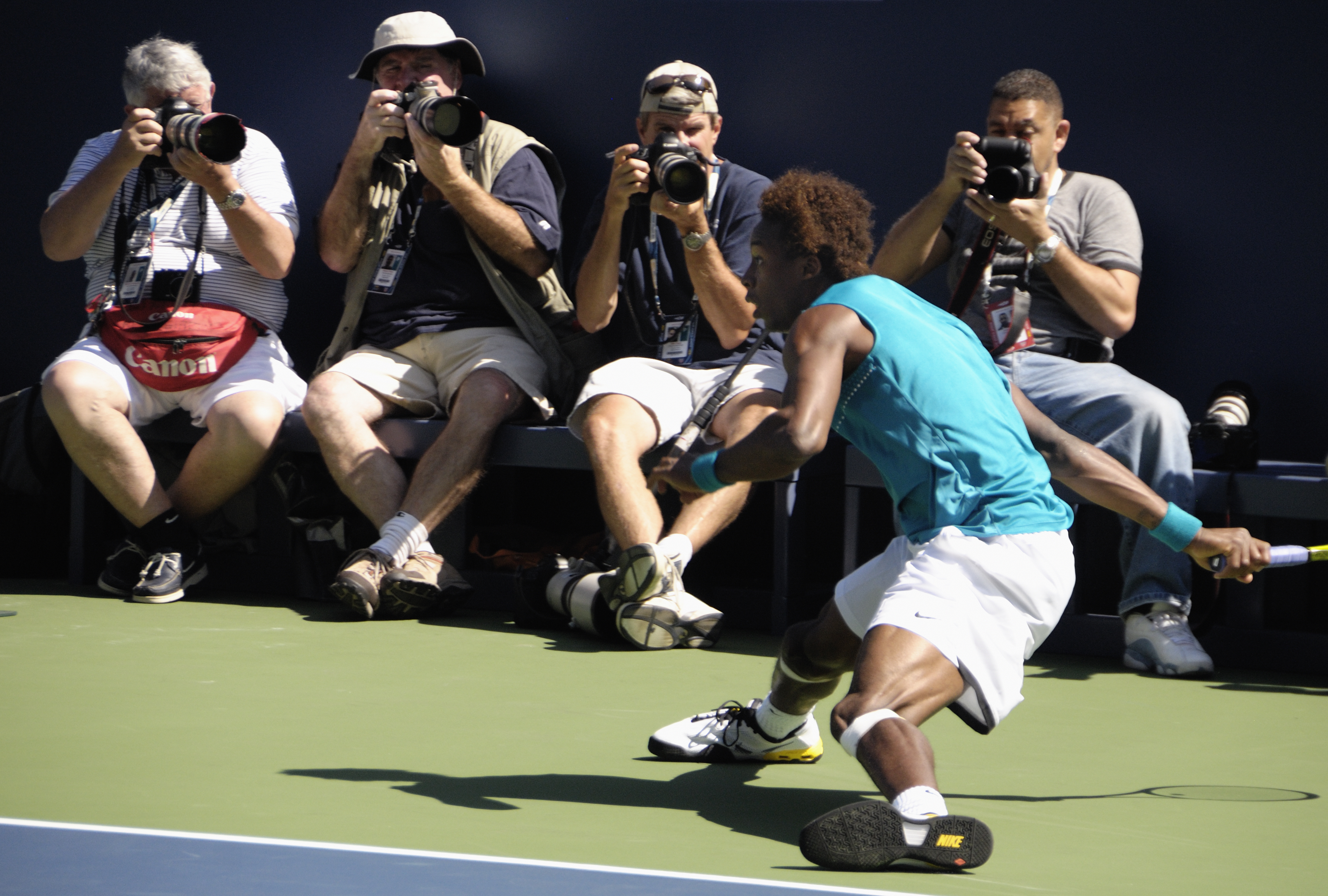 Gaël Monfils at the 2009 US Open